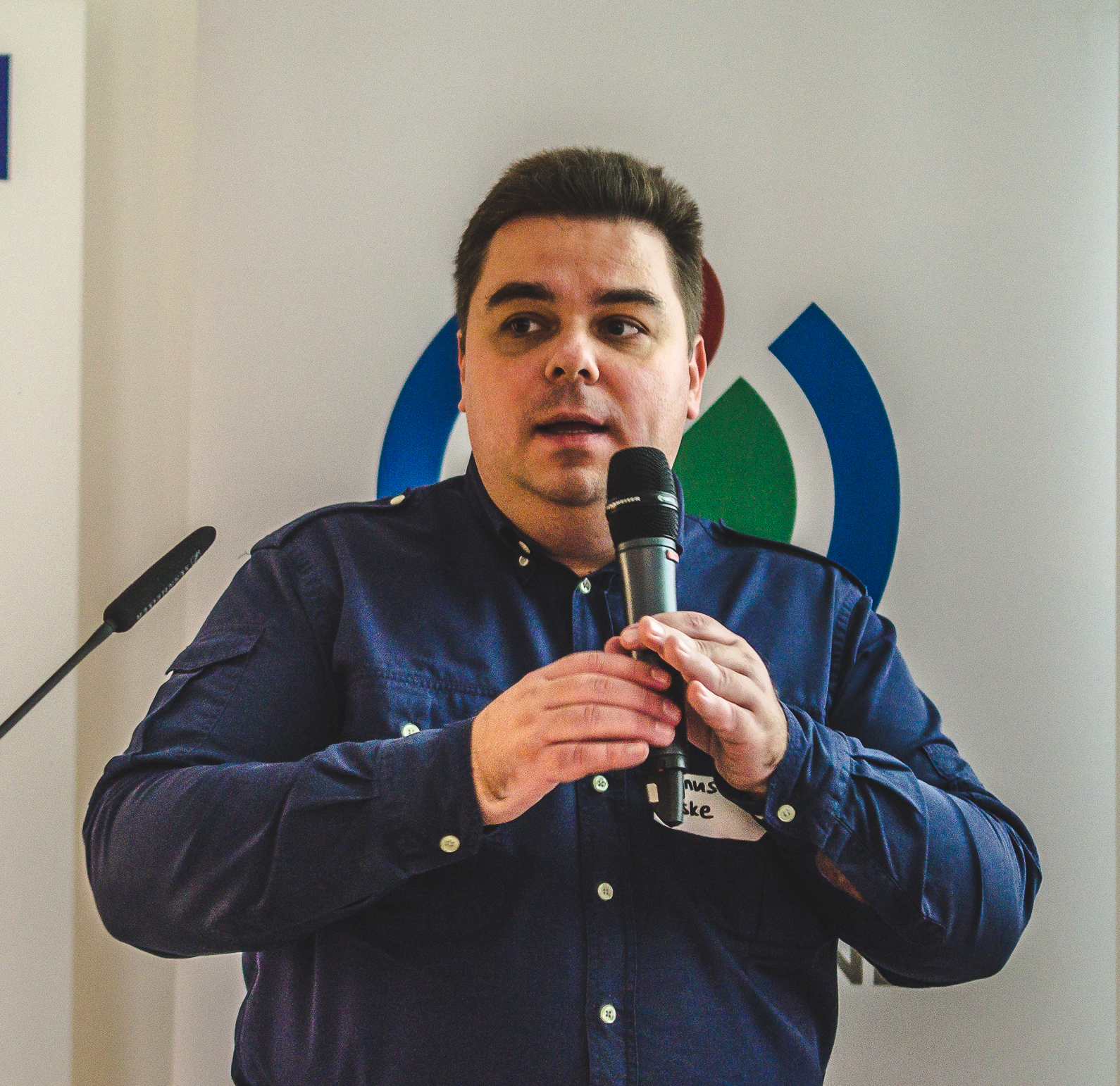 Talk Magnus Manske @ Wikidata third Birthday Party at Wikimedia Deutschland e.V.